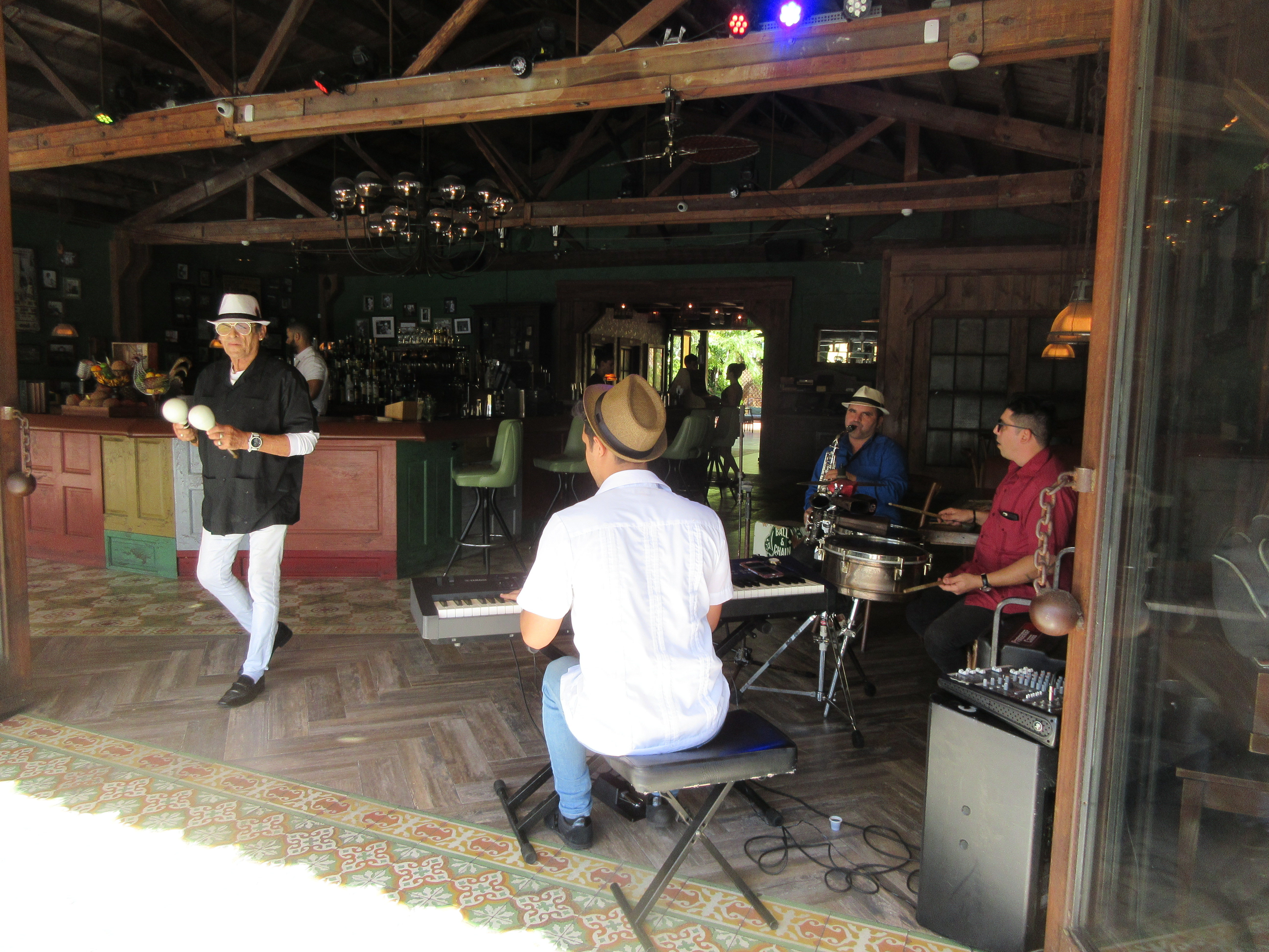 Calle Ocho, Little Havana, Miami, Florida.